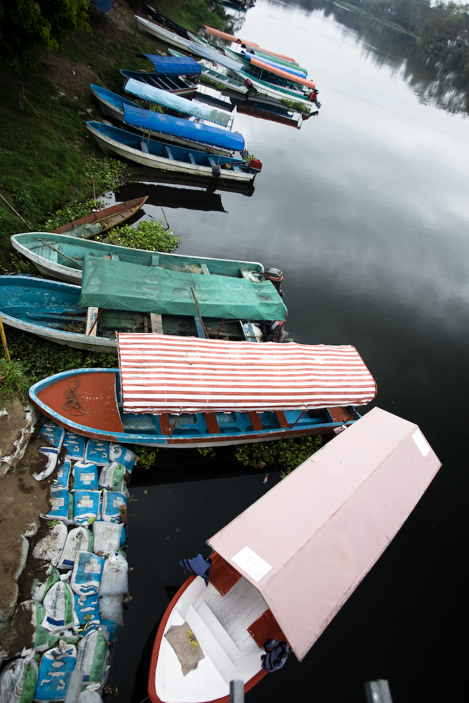 Fishing boats in La Antigua River, Mexico